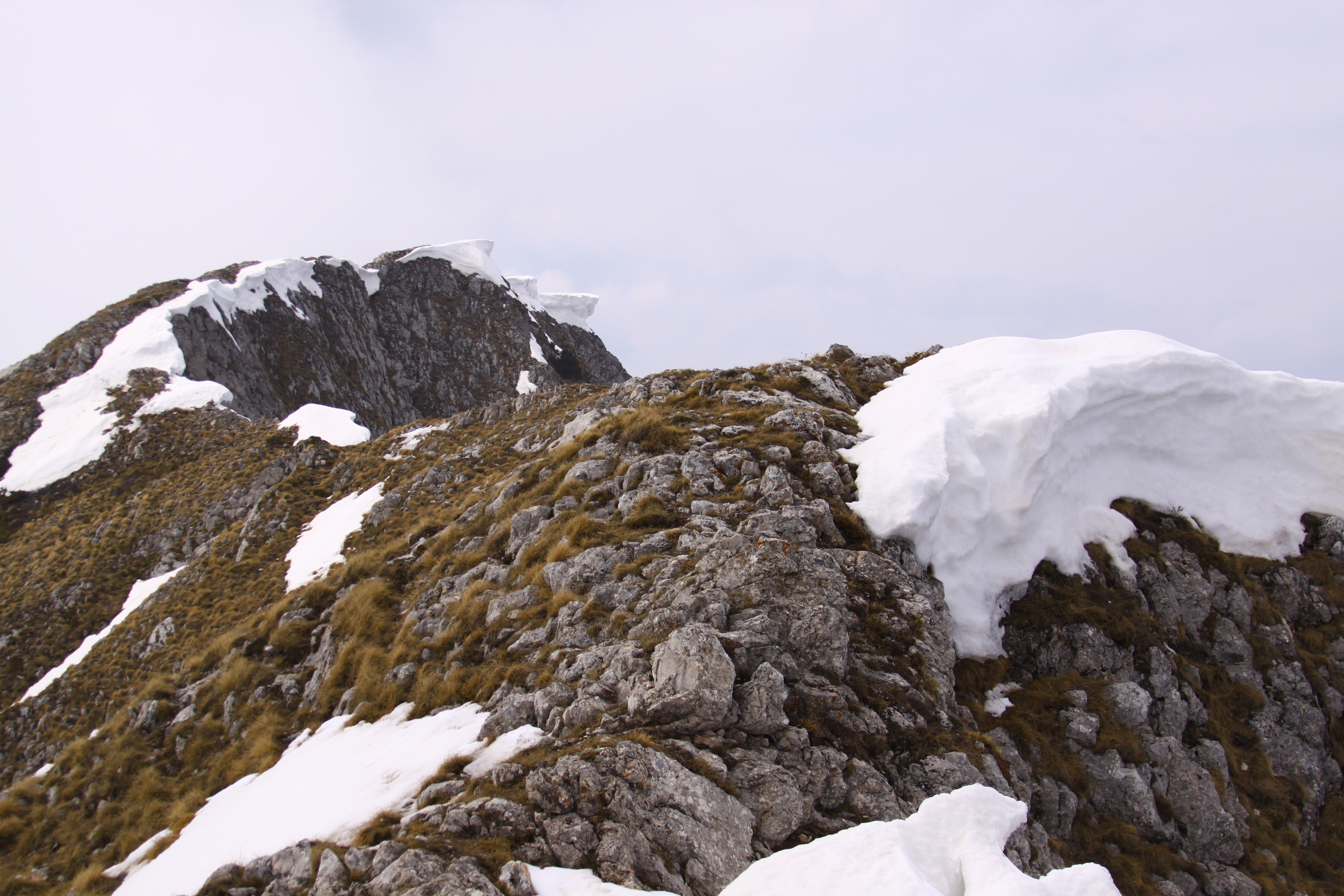 Hajla is located on the border between Kosovo and Montenegro and it's peak reaches the altitude of 2403 m alt.